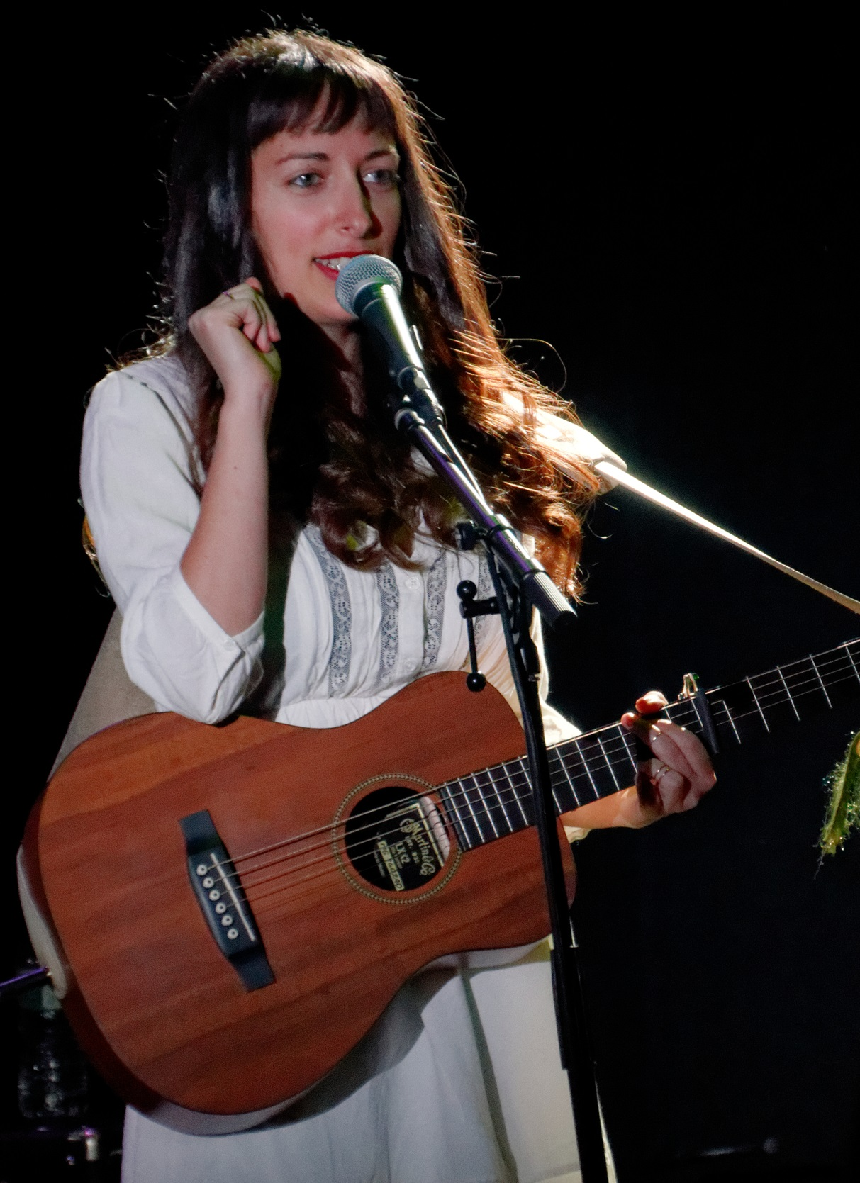 Rosi Golan performing at Le Poisson Rouge in 2014